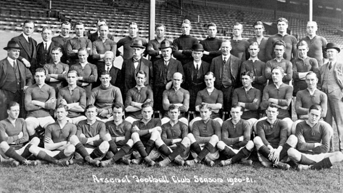 The 1920-21 Arsenal FC team.